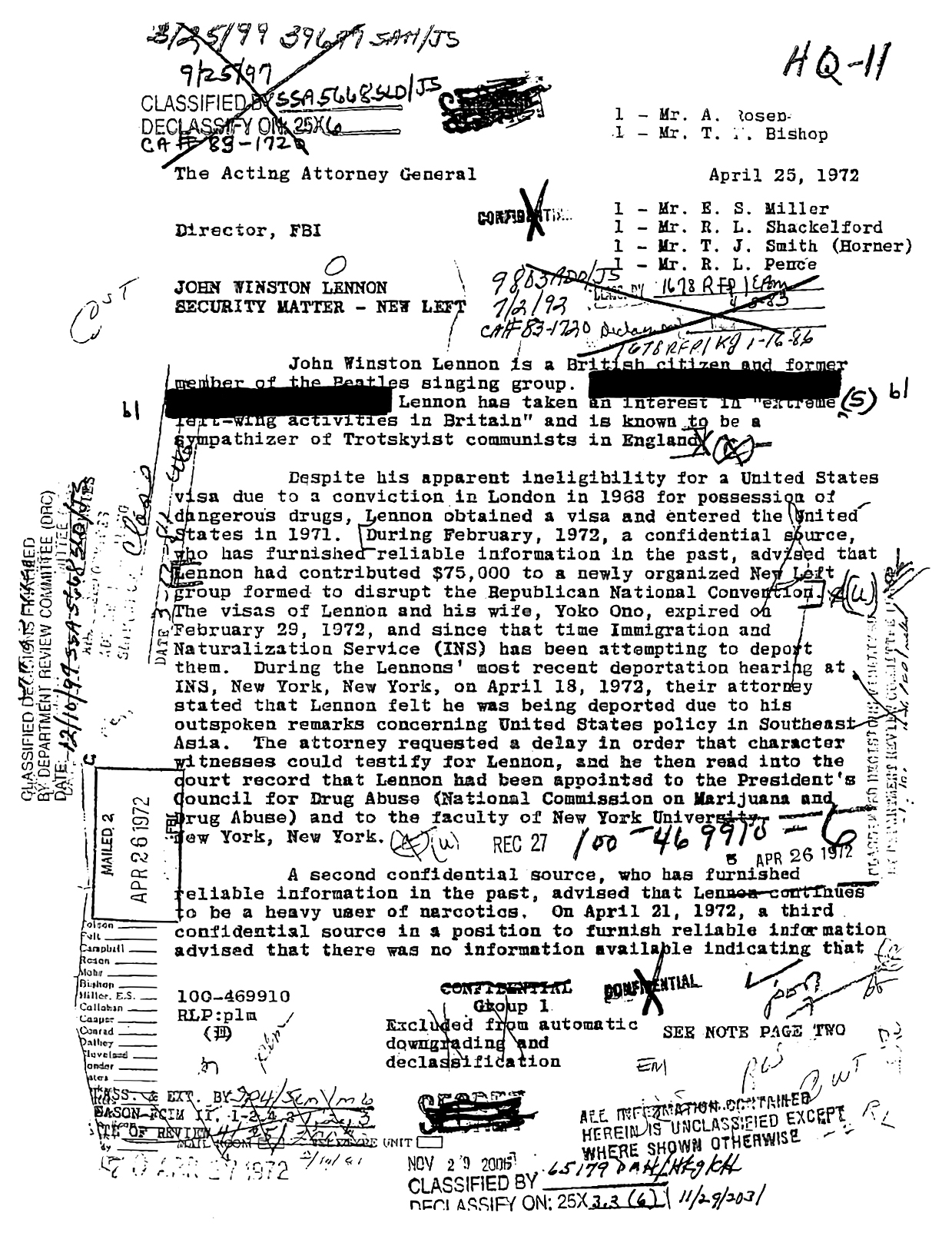 In the early 1970s, the US government conducted surveillance on ex-Beatle John Lennon. This is a letter from FBI director J. Edgar Hoover to the Attorney General. After a 25-year Freedom of Information Act Request battle initiated by historian Jon Wiener, the files were released. Here is one page from the file. This second release received by Wiener showed almost all of the text -- on an earlier version, portions of the text had been blacked out presumably with magic marker -- or what is termed "redacted". Another version of this file (but with more portions redacted) was received by Wiener earlier.